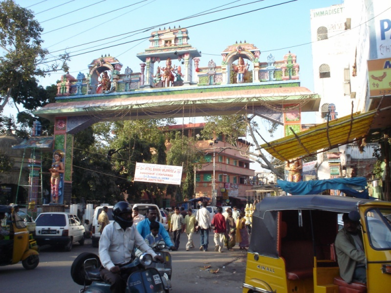 Entrance to the Sri Ujjaini Mahankali Temple